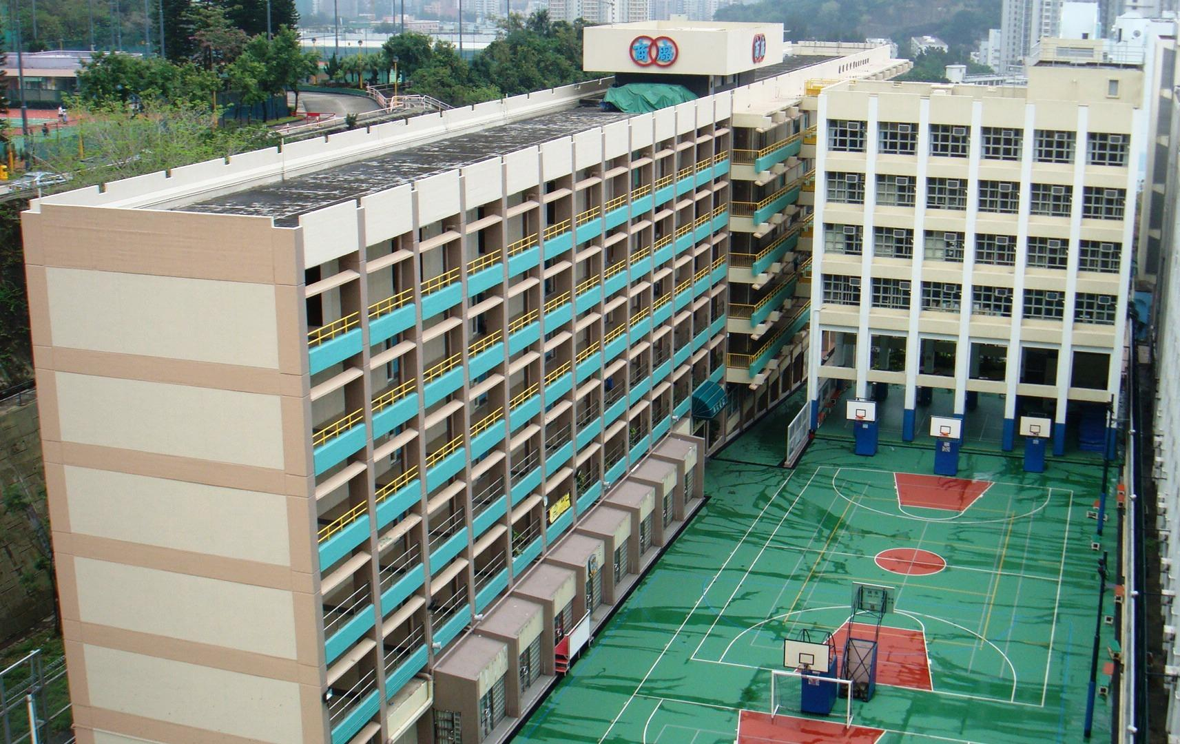 CMA Secondary School